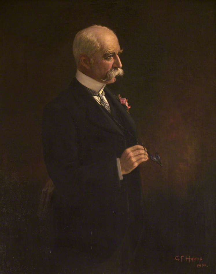 The Viscount Tredegar painted by George Frederick Harris in 1910.